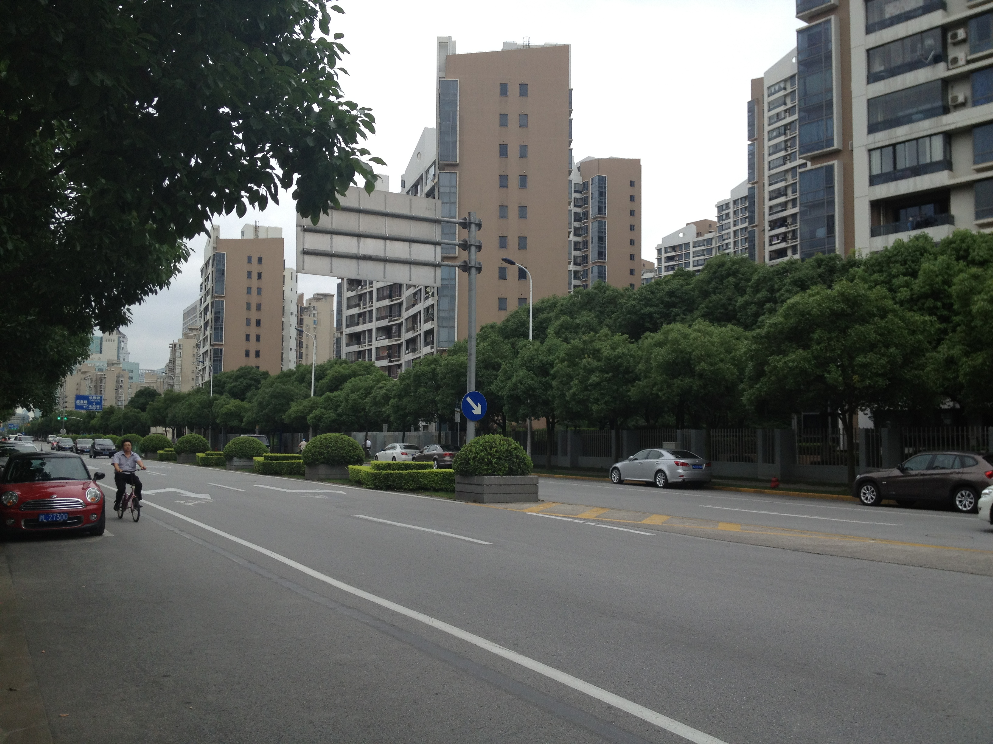 Dingxiang Road, Shanghai